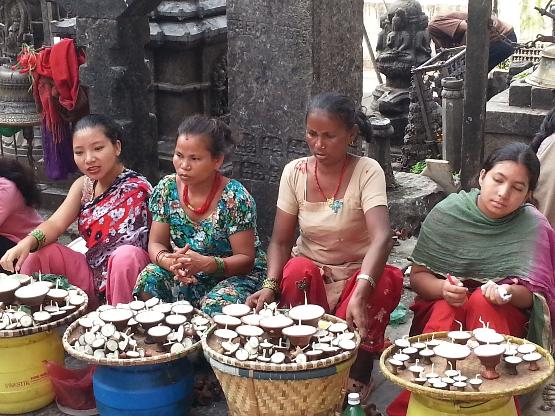 NepalianWomen